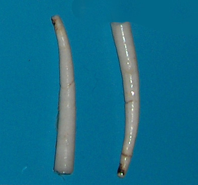 Antalis entalis, a tusk shell from the family Dentaliidae